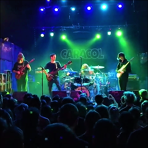 My friend koroseki pic Polyphia, at sala caracol concert hall. He gave me all the rights to use this picture.